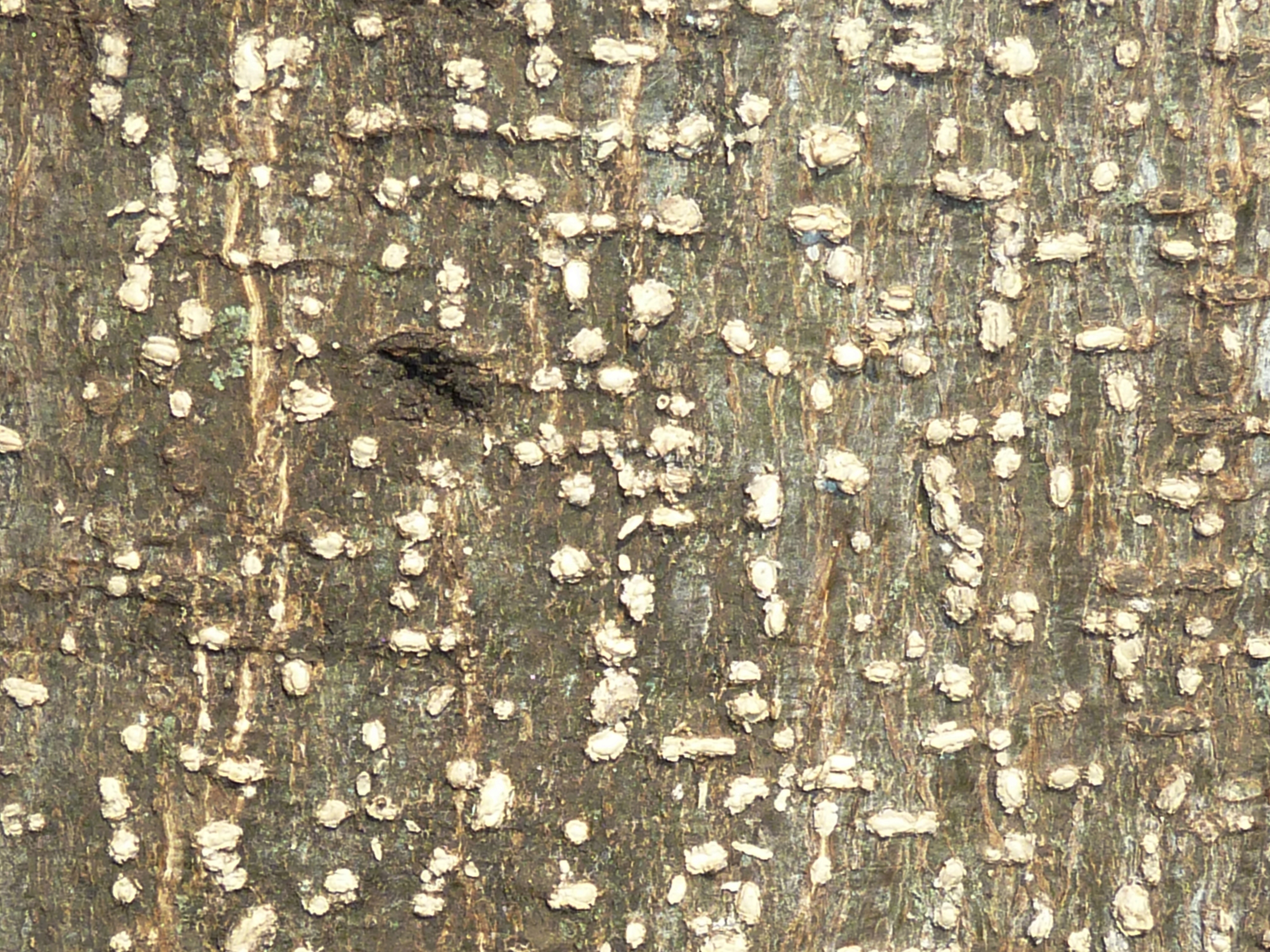 Bark of a White sapote, with conspicous lenticels, at Voortrekkerbad, Limpopo